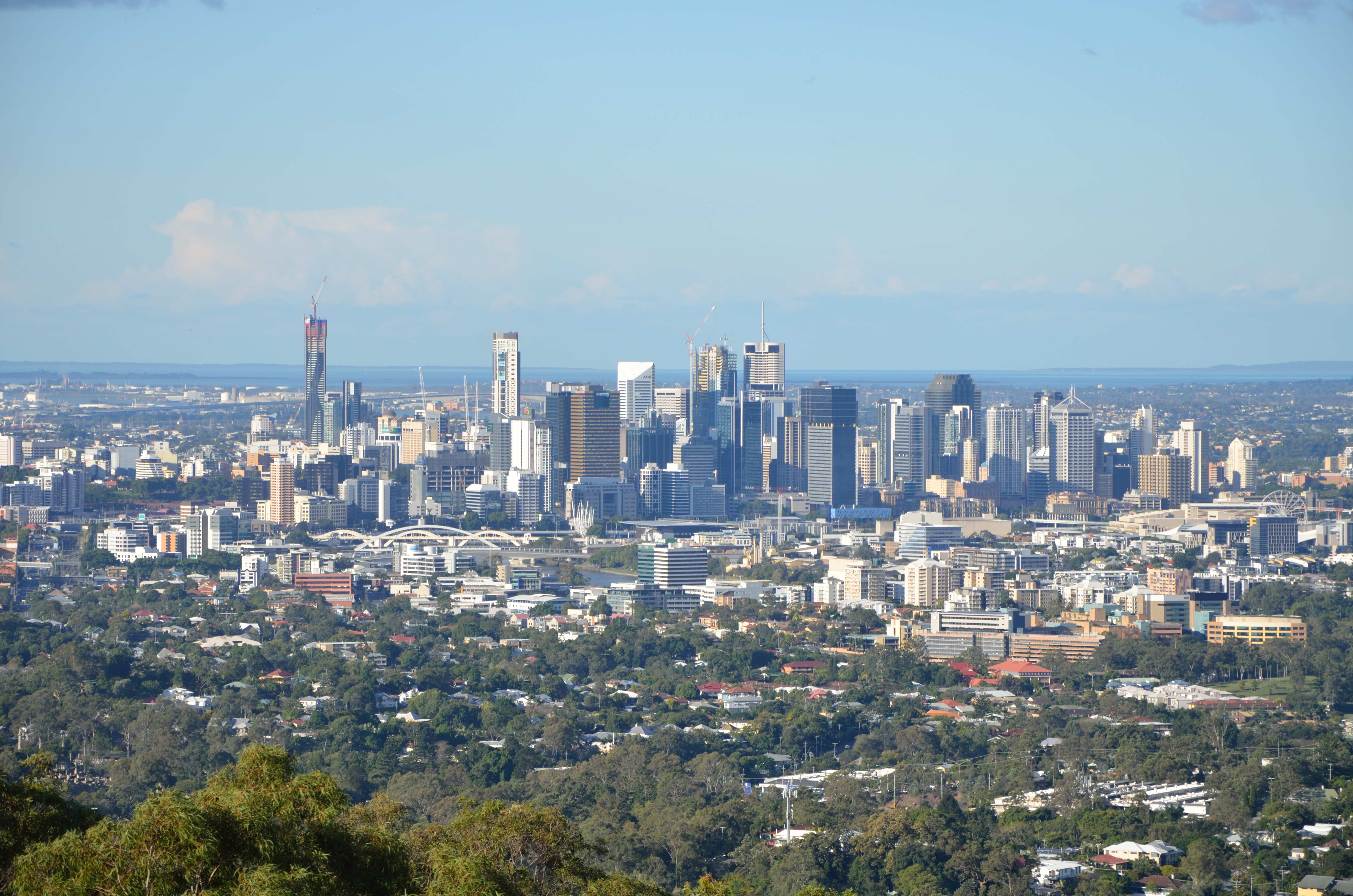 View of Brisbane from Mt Coot-tha Lookout during the day.